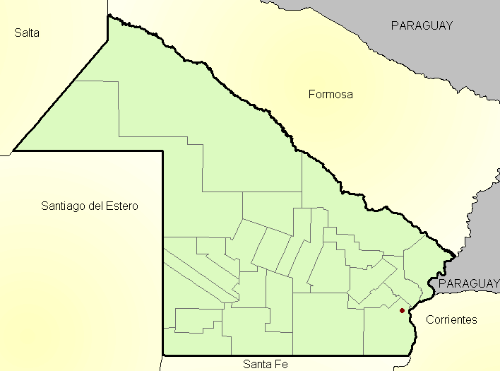 It shows administrative boundaries of Chaco province, its departments and its capital (Resistencia).